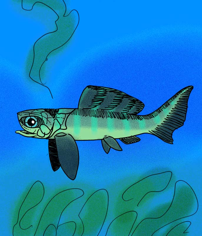 Reconstruction of the selenosteid arthrodire placoderm, Stenosteus angustopectus, of the Fammenian of Late Devonian Ohio. Was very similar to Selenosteus, and is the only member of its genus known from a (mostly) complete skull.